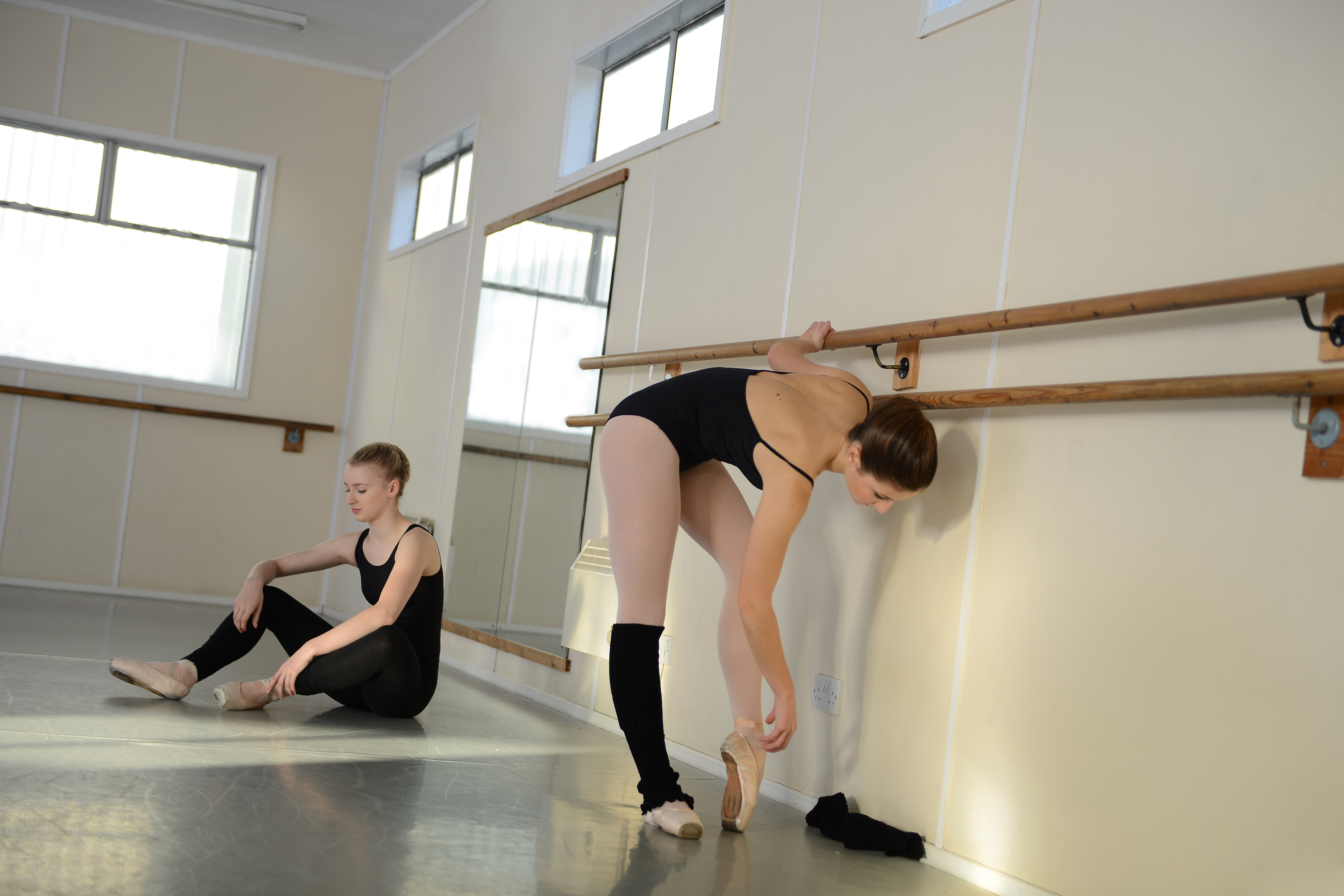 If you use this photo, please credit